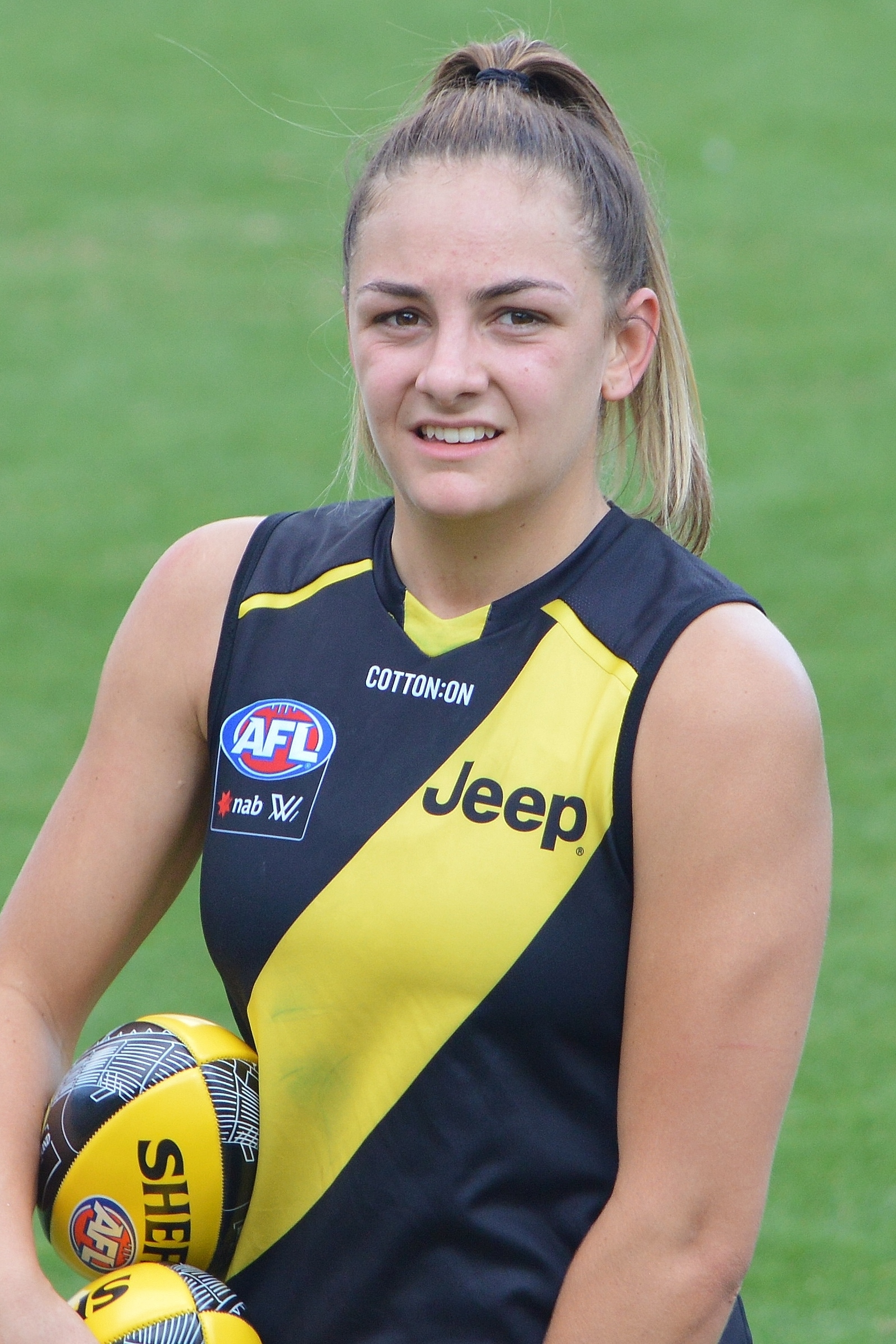 Mon Conti with Richmond during the round 3, 2020 AFL Women's match against North Melbourne at Ikon Park.